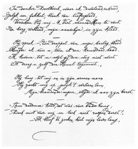 Manuscript of the poem "In donker Doolbosch" by Hélène Swarth